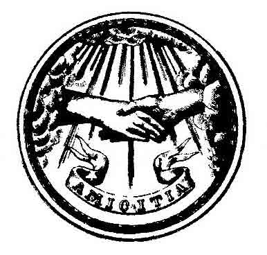 Sigillum Maior Amicitia